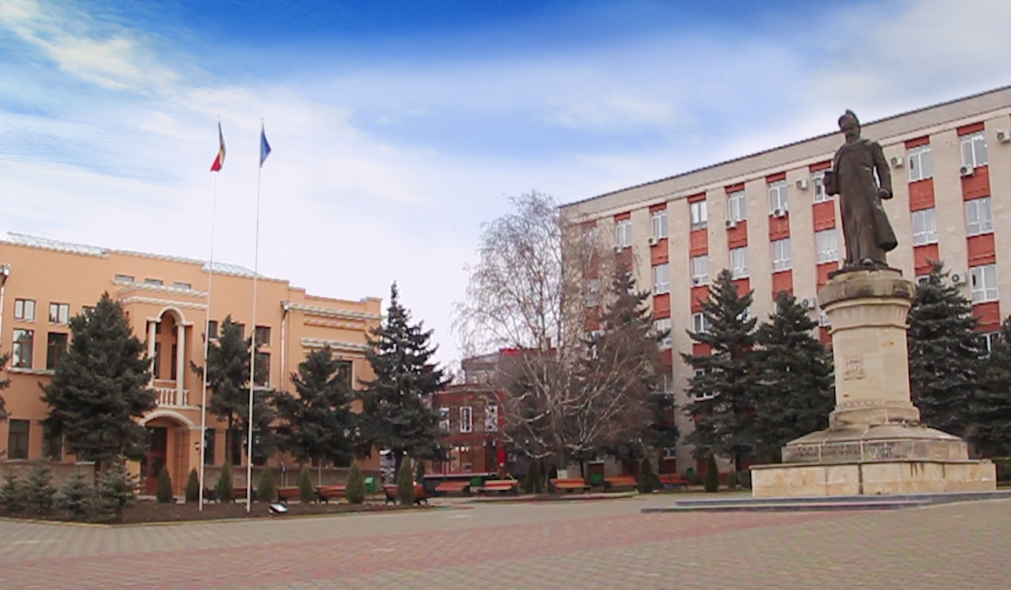 Vasile Lupu's monument, Orhei, Moldova